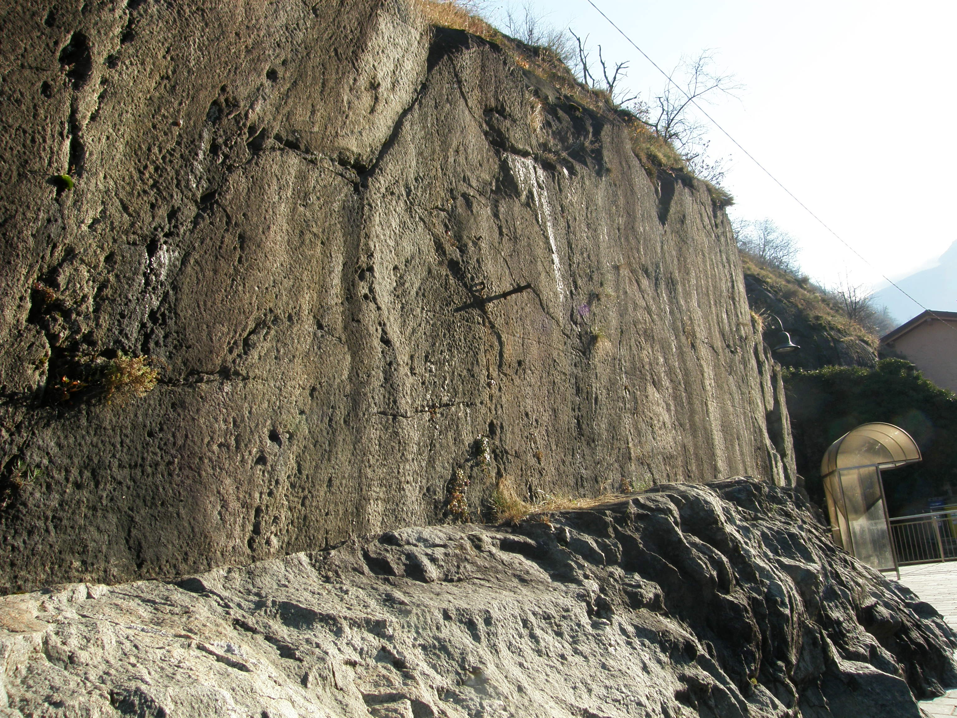 This is a photo of a monument which is part of cultural heritage of Italy.